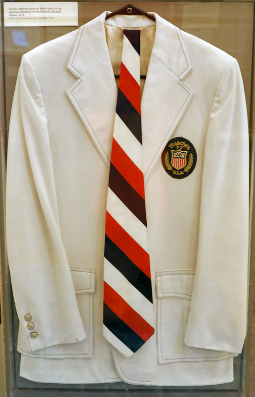 Jacket worn by Mark Spitz during the 1972 Summer Olympics, from an exhibit at the Jewish Museum of Florida - Miami Beach